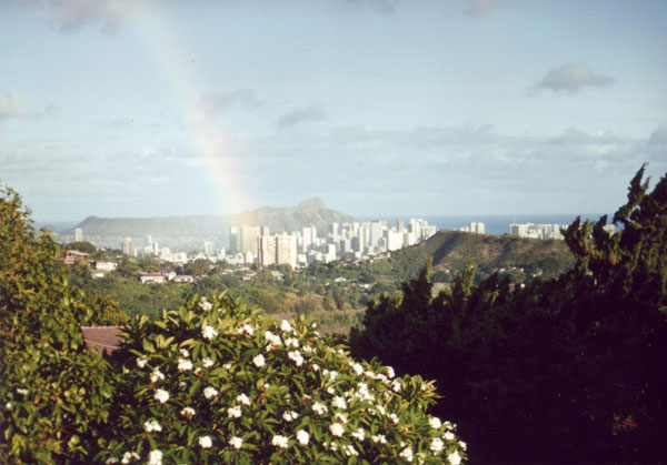 Honolulu, Hawaii and Diamond Head crater with rainbow, facing Southeast. Taken in 1991 by Jeremy Kemp.